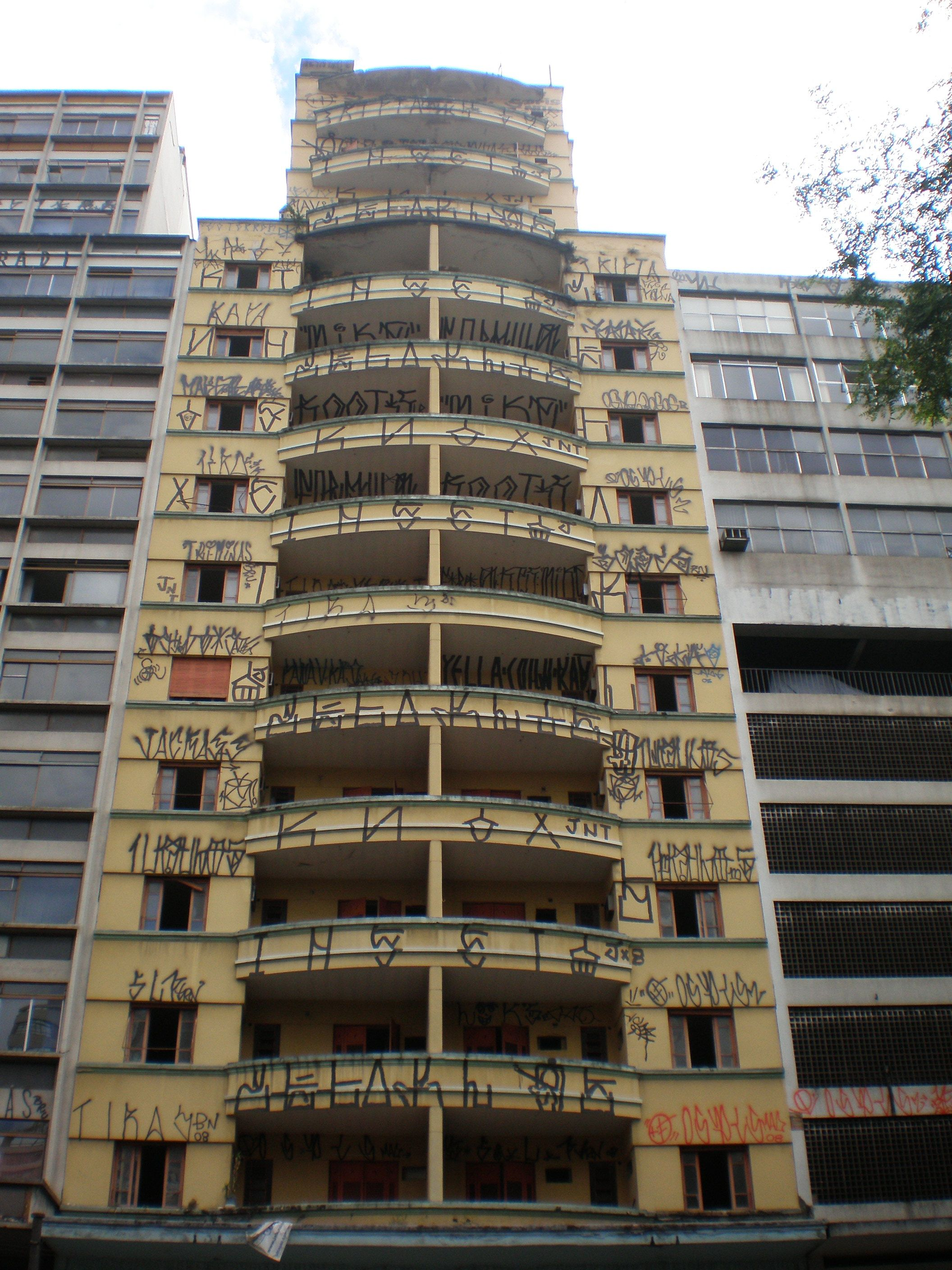 pixação graffiti in são paulo, brazil